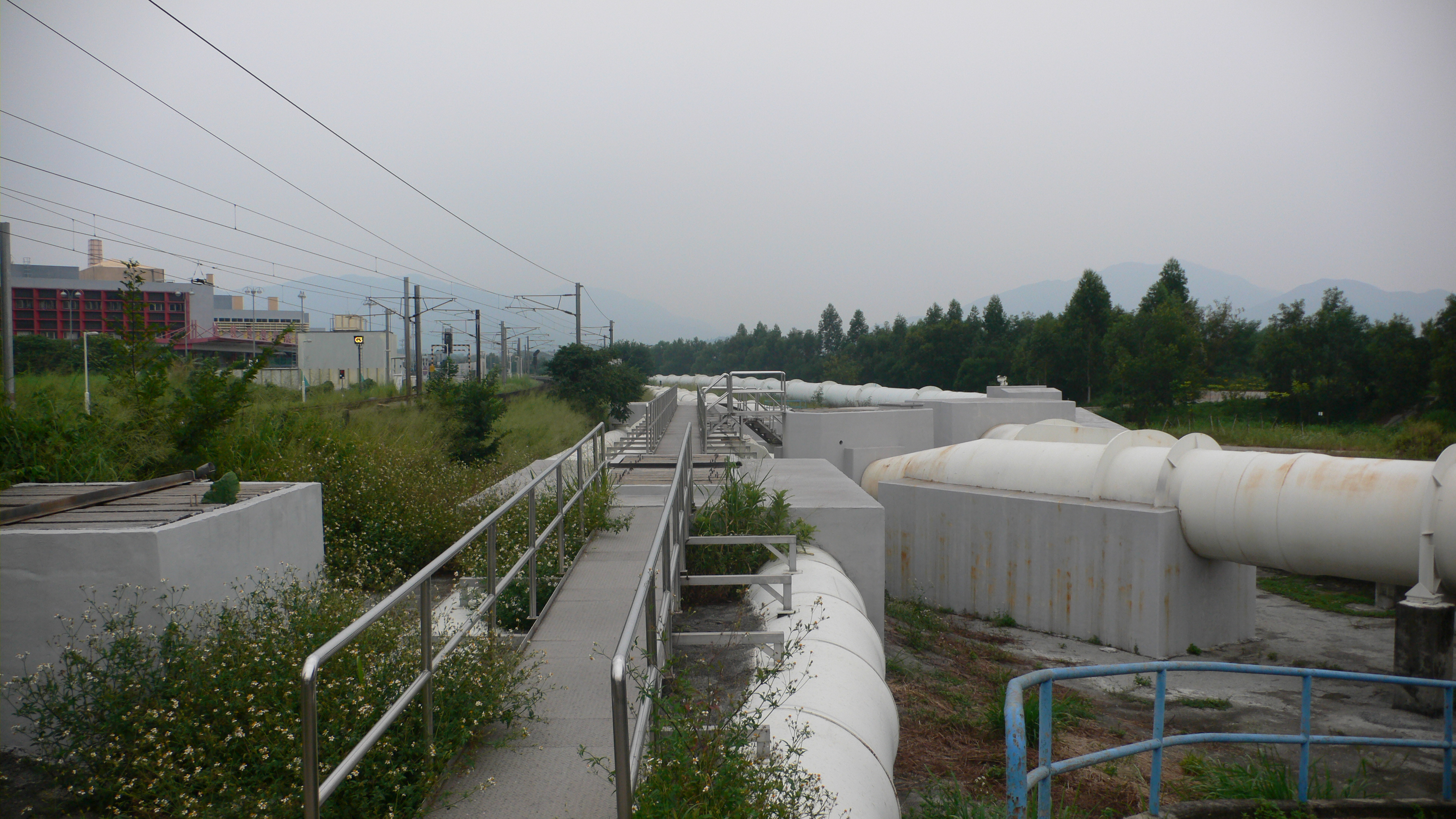 Big Water Pipes bringing fresh water to Hong Kong, taken in Sheung Shui, Hong Kong